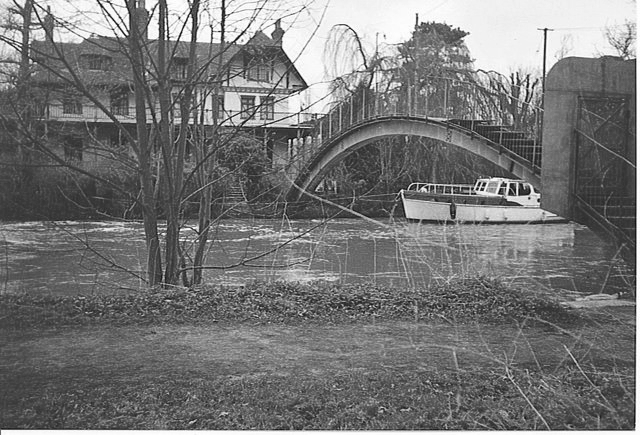 Desborough Cut, near Shepperton. The cottage is approached by a private, arched, metal bridge across the Desborough Cut. The cut is a short cut on the Thames for boat traffic, putting the cottage on D'Oyly Carte Island where Sir Arthur Sullivan's house is located. Boats, like this one, are moored for most of the year.